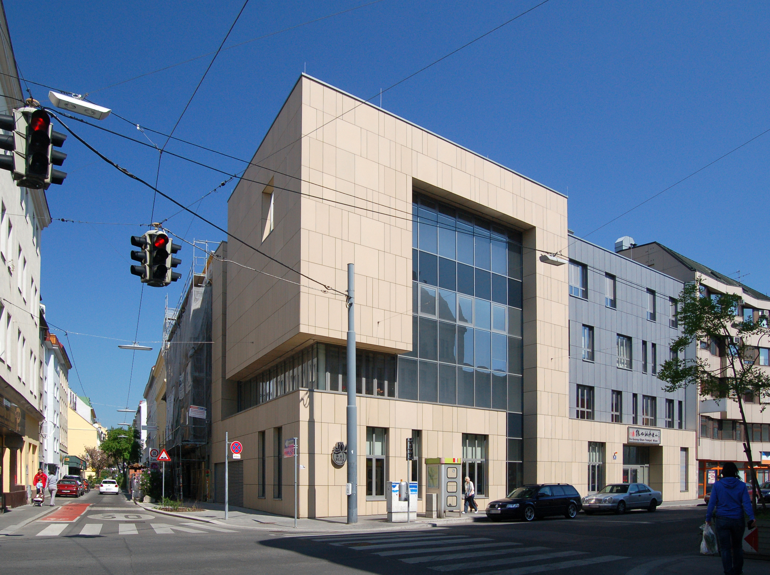 Fo-Guang-Shan temple Vienna, Sechshauser Straße 50, Rudolfsheim-Fünfhaus, Vienna. The street going strait is the Reindorfgasse.